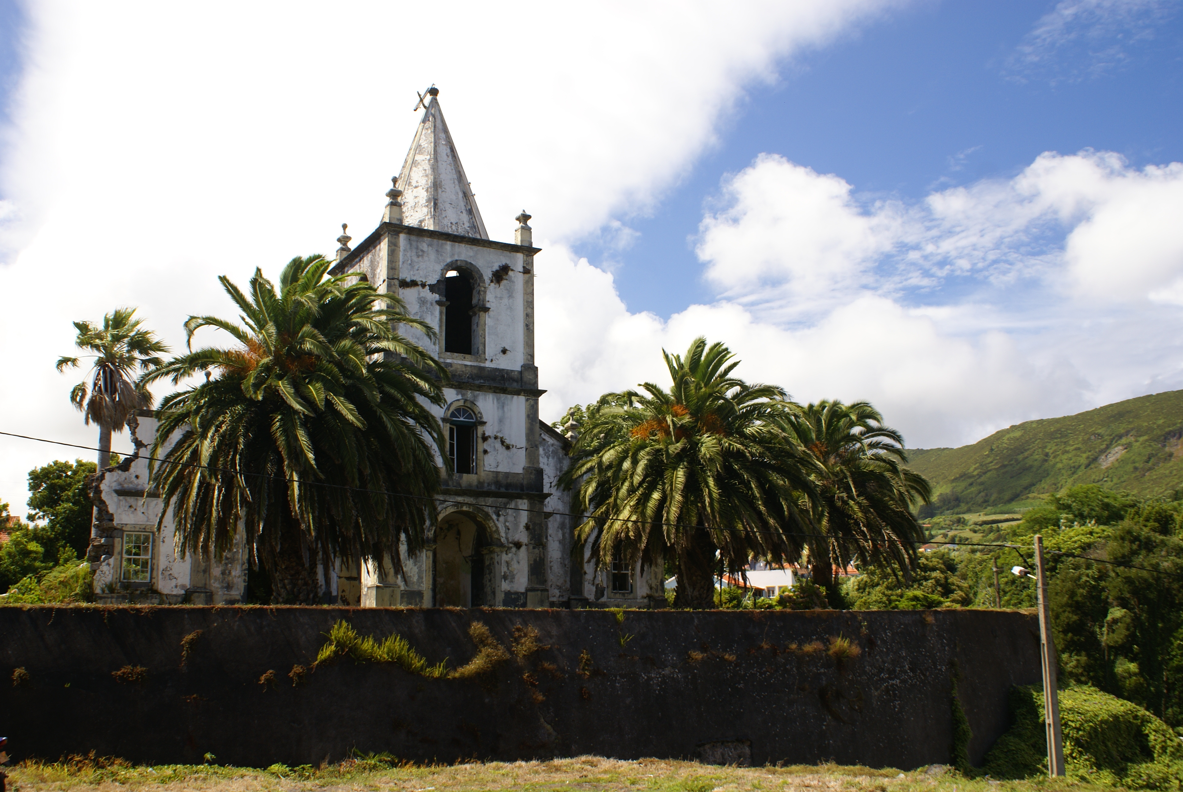 Igreja de Nossa Senhora da Ajuda, aspectos 2, Pedro Miguel, destruida pelo terramato de 1998 depois por um incêndio, concelho da Horta, ilha do Faial, Açores, Portugal